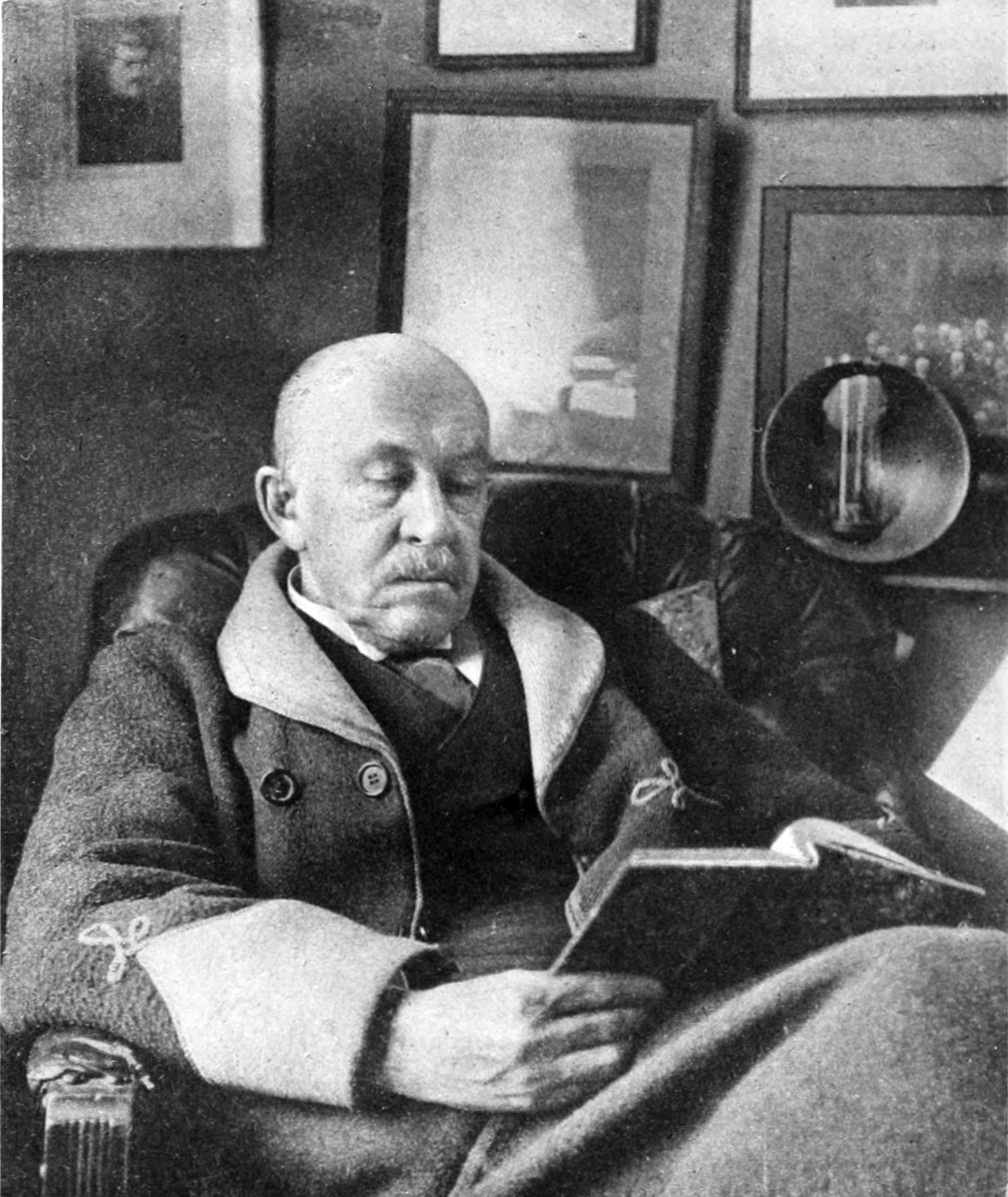 William Graham Sumner (1907)